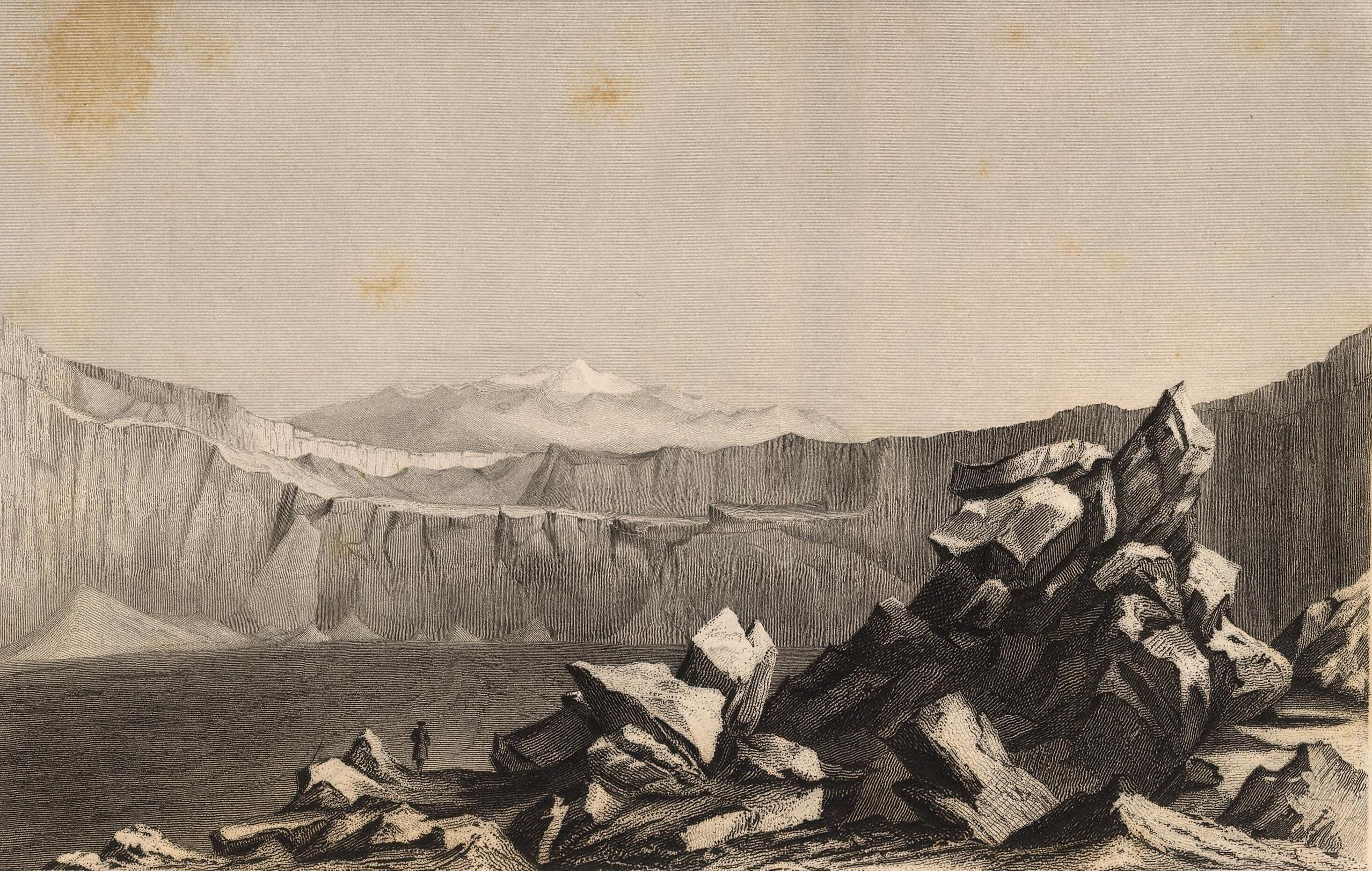 Crater of Mokuʻāweoweo, the summit caldera of Mauna Loa, on the island of Hawaii. Engraving with inked changes.